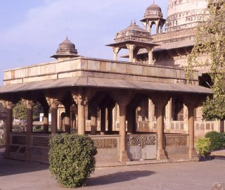 Tomb of North-Indian composer and musician Tansen (1506-1589) in Gwalior, Madhya Pradesh, India.